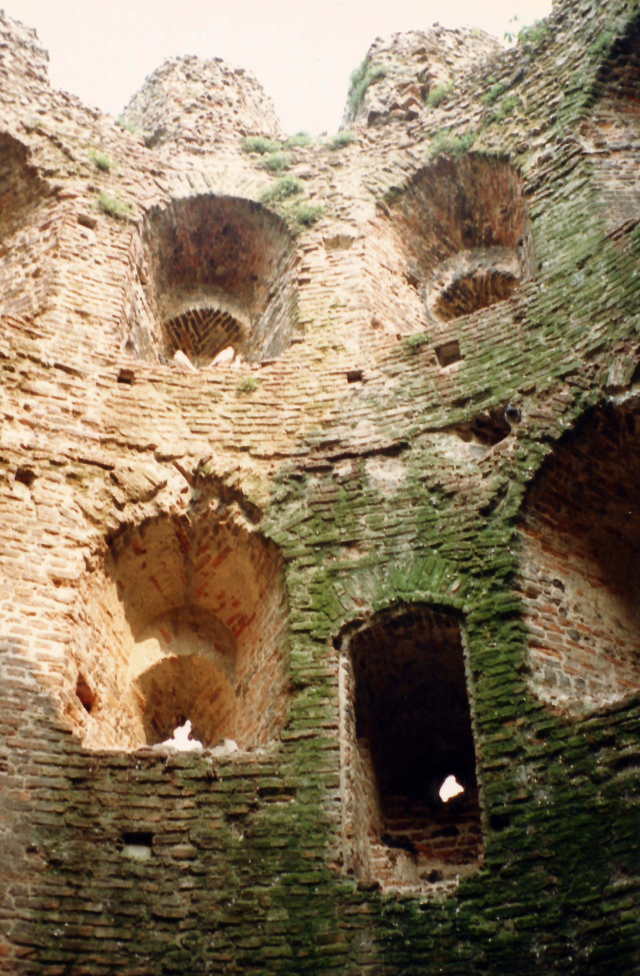 Interior wall of the Cow Tower, Norwich, England, showing apertures